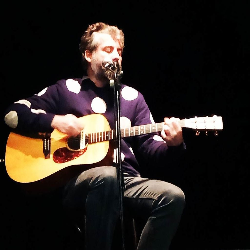 Sr chinarro performing at El mini festival in Olot 2016